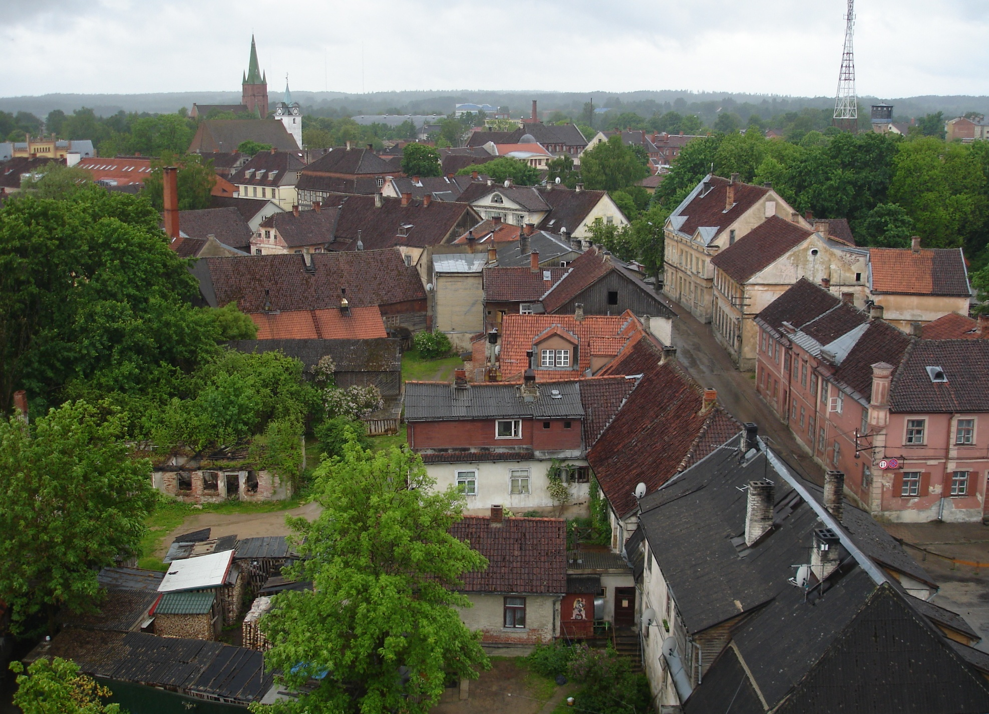 Kuldiga from Katrinas church